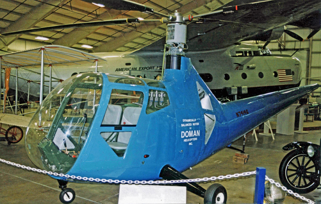 Sikorsky R-6A Hoverfly II exhibited at the New England Air Museum at Windsor Locks, CT